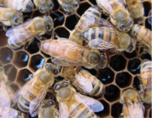 Adult queen bee.